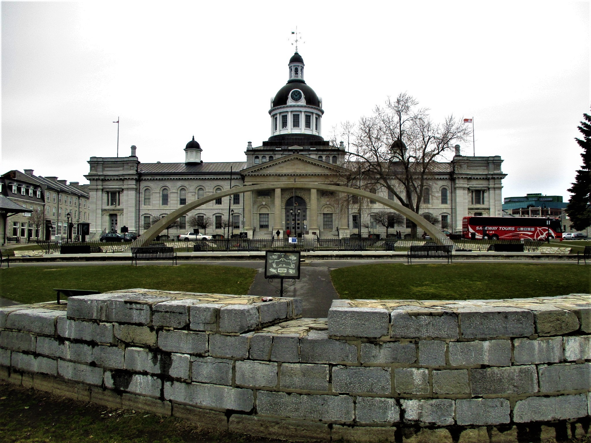 Kingston City Hall -Confederation Park - reconstructed wall of the Market Battery- Kingston- Ontario- Canada